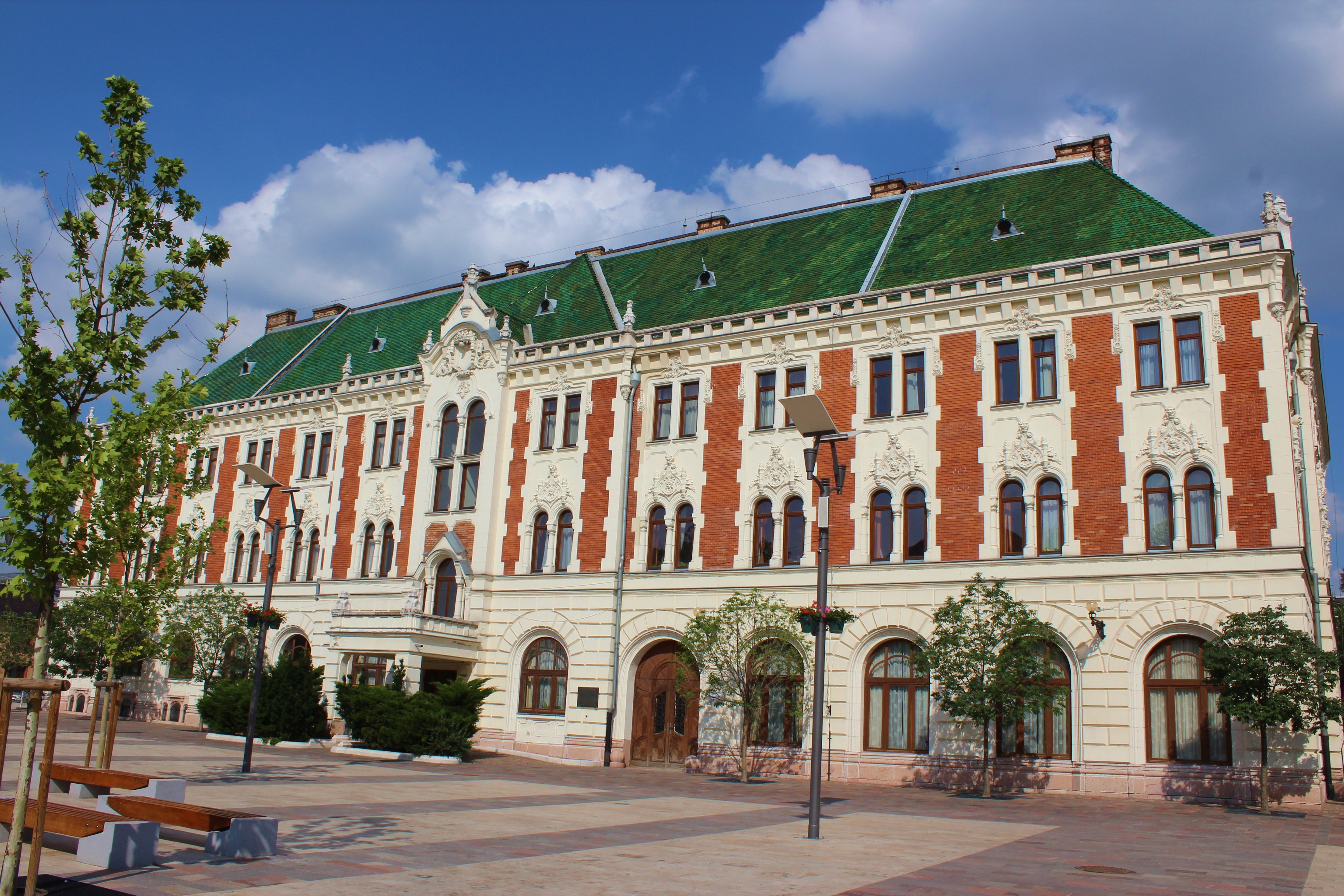 Újpest Town Hall